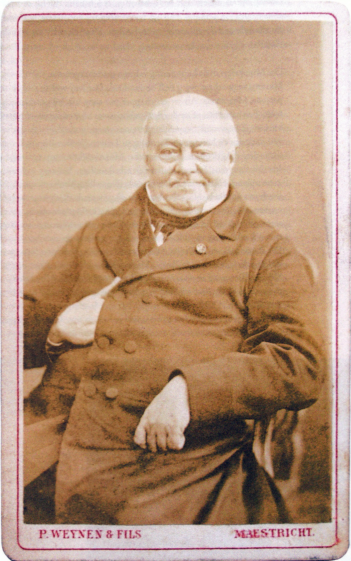 Photograph of the Dutch-Belgian jurist Godefroid Stas (1802-1876), after his retirement around 1870. Photogrpah by Peter Weijnen (1804-1877) or his son Theodore Weijnen (1835-1904), photographers in Maastricht.